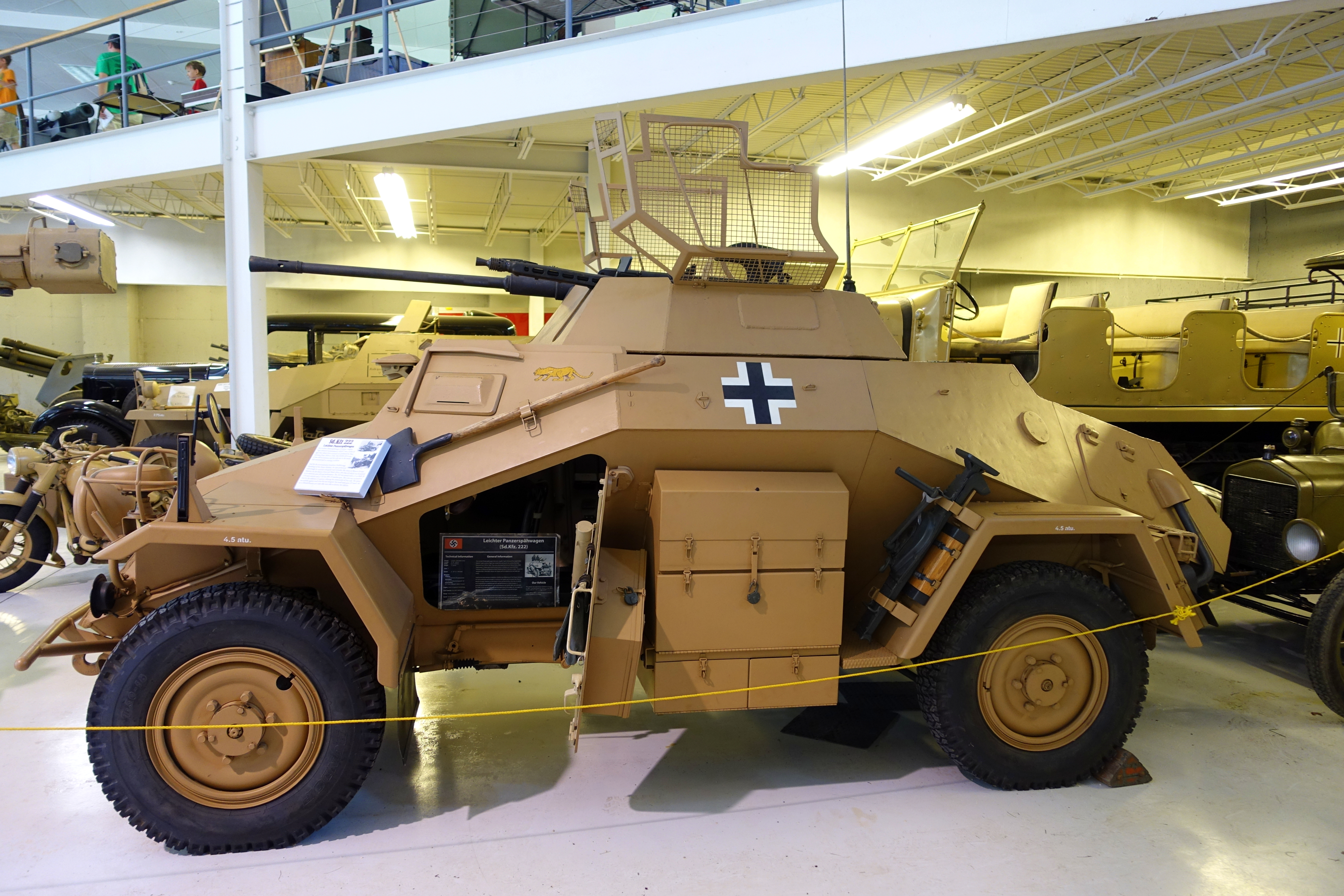 Leichter Panzerspähwagen Sd.Kfz 222 - Collings Foundation - Stow / Hudson, Massachusetts, USA.